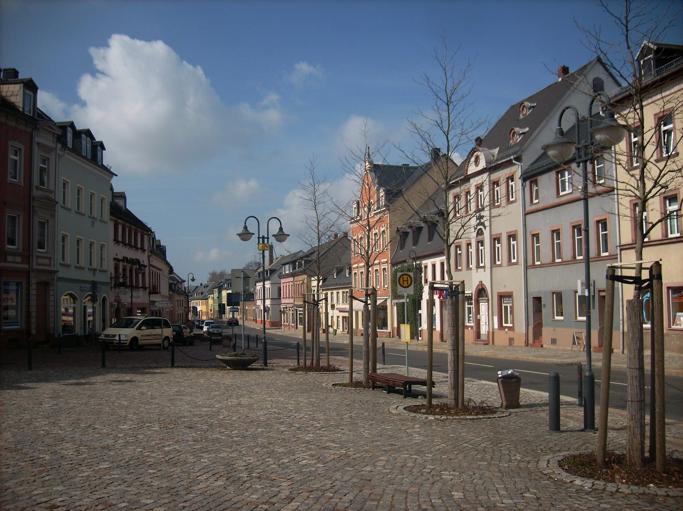 Market square in Geringswalde (Mittelsachsen district, Saxony)